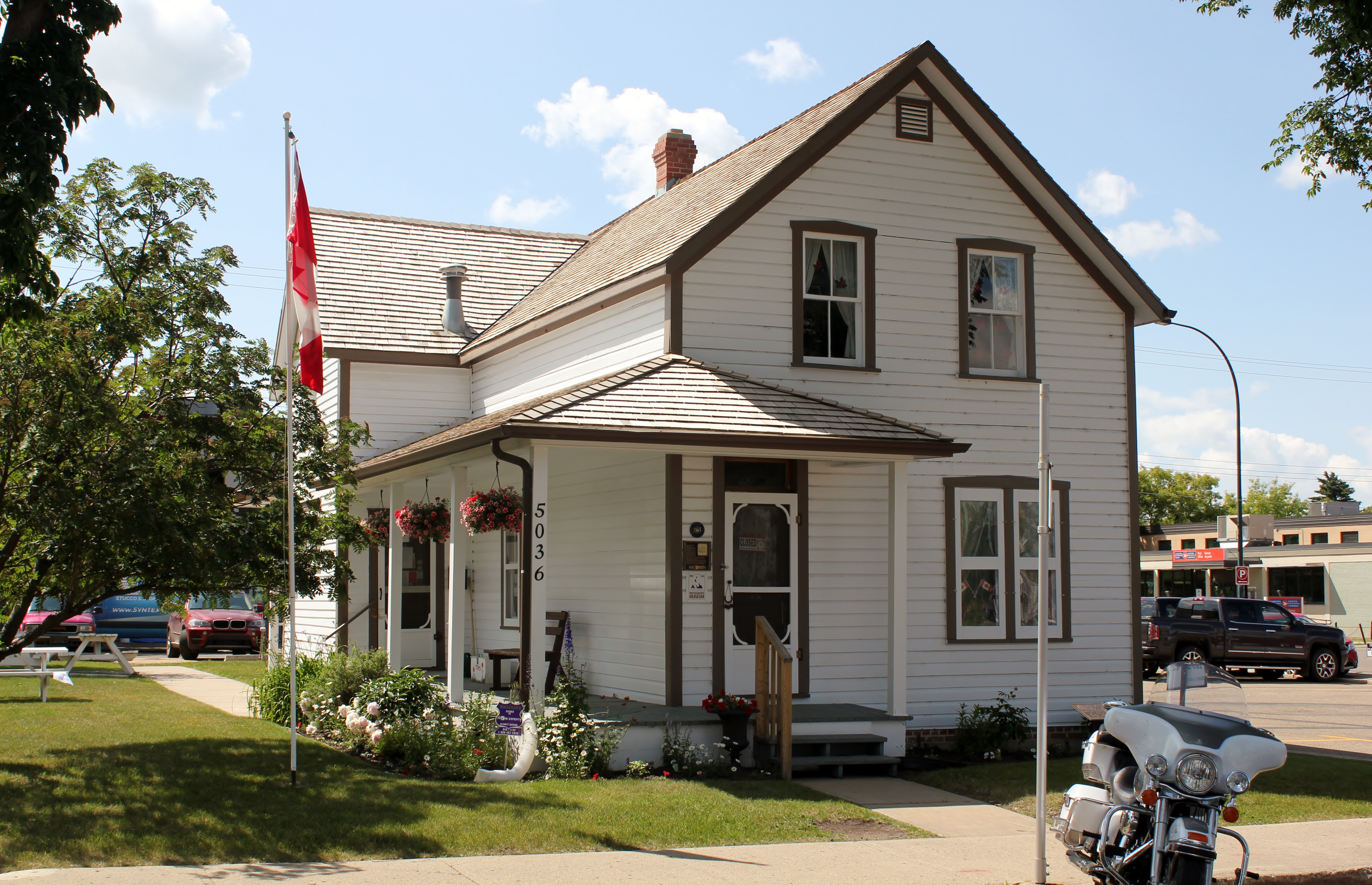 Roland Michener House